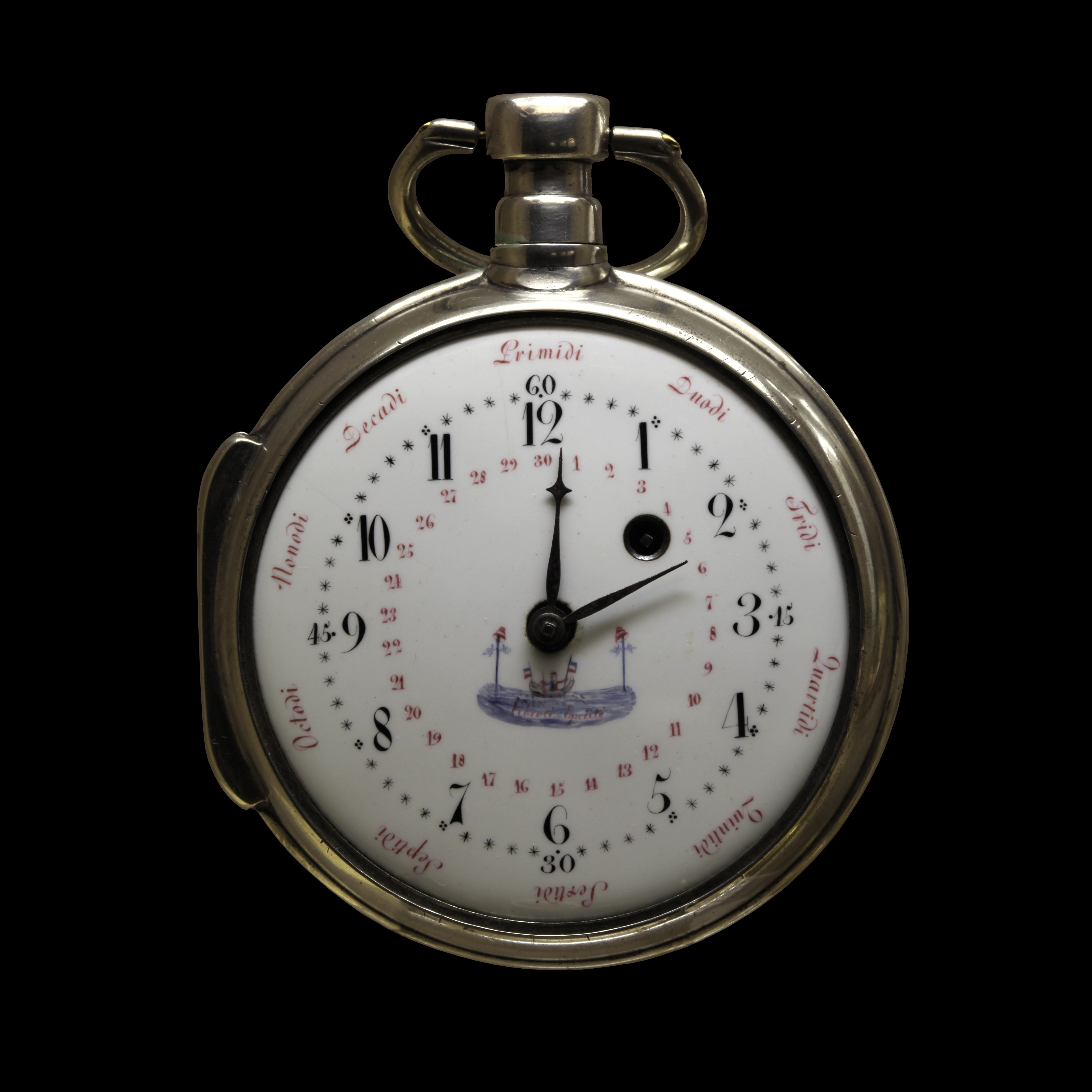 Pocket watch with dodecacimal-based hours, and days of the month and of the week in French Republican Calendar. On display at Neuchâtel Arts and History museum.